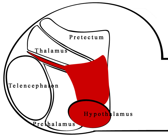 This figure depicts the organization of a cichlid brain (3-4 days old, mid prim stage), with the outline of the structures of the forebrain (plus the pretectum) and expression of shh in the ZLI, the hypothalamus, and regions of the thalamus and prethalamus.